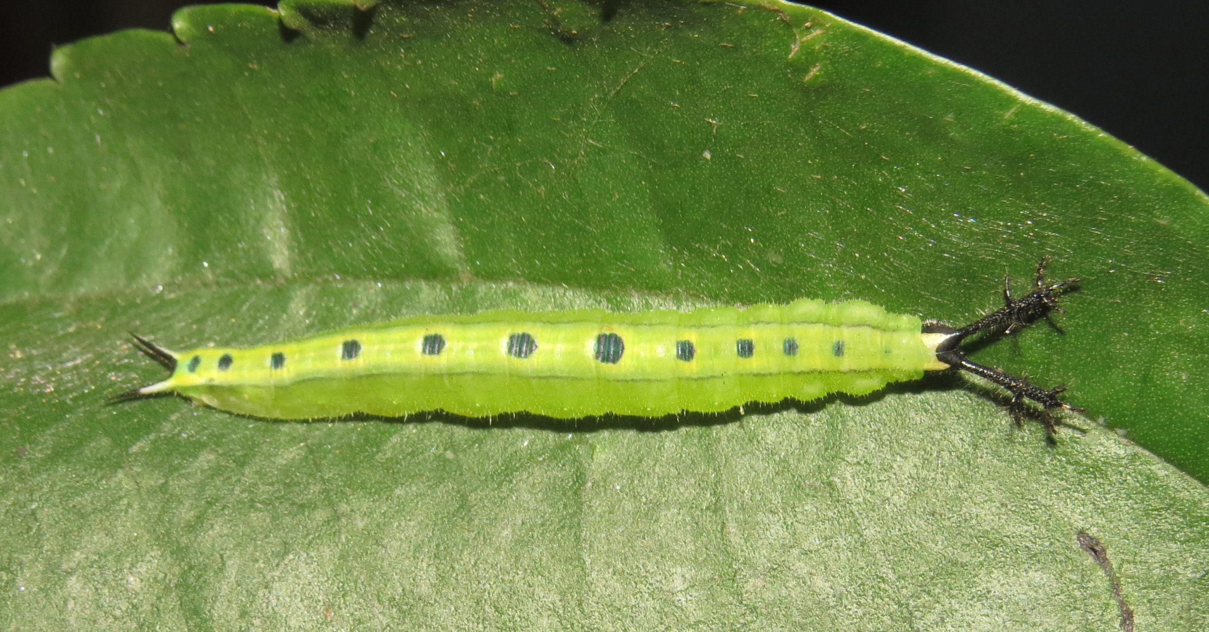 Rohana parisatis Westwood, 1850 – Black Prince from Periya, Wayanad, Kerala, India